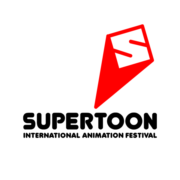 Official Logo of Supertoon International Animation Festival